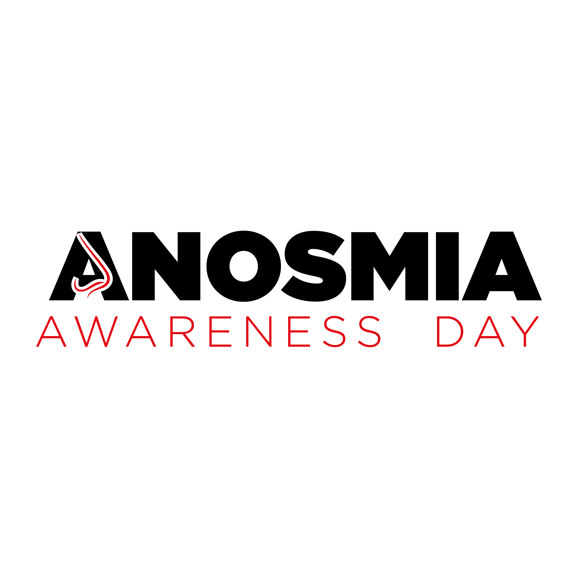 The official logo of Anosmia Awareness Day (17 February).